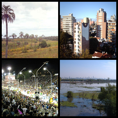 Montage of images from Entre Ríos Province, Argentina